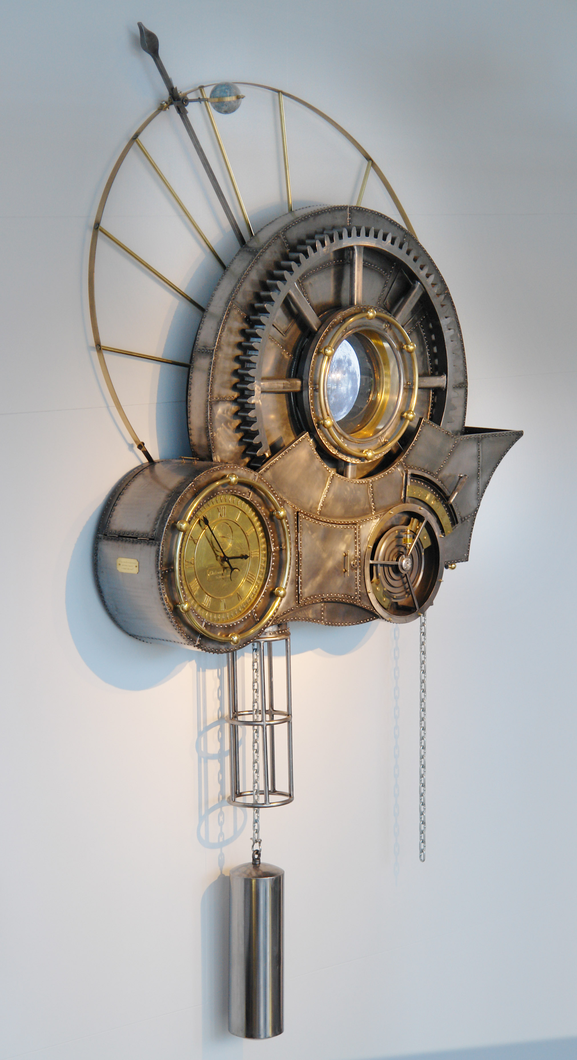 Clockwork Universe Sculpture at Questacon uploaded with permission from the artist.